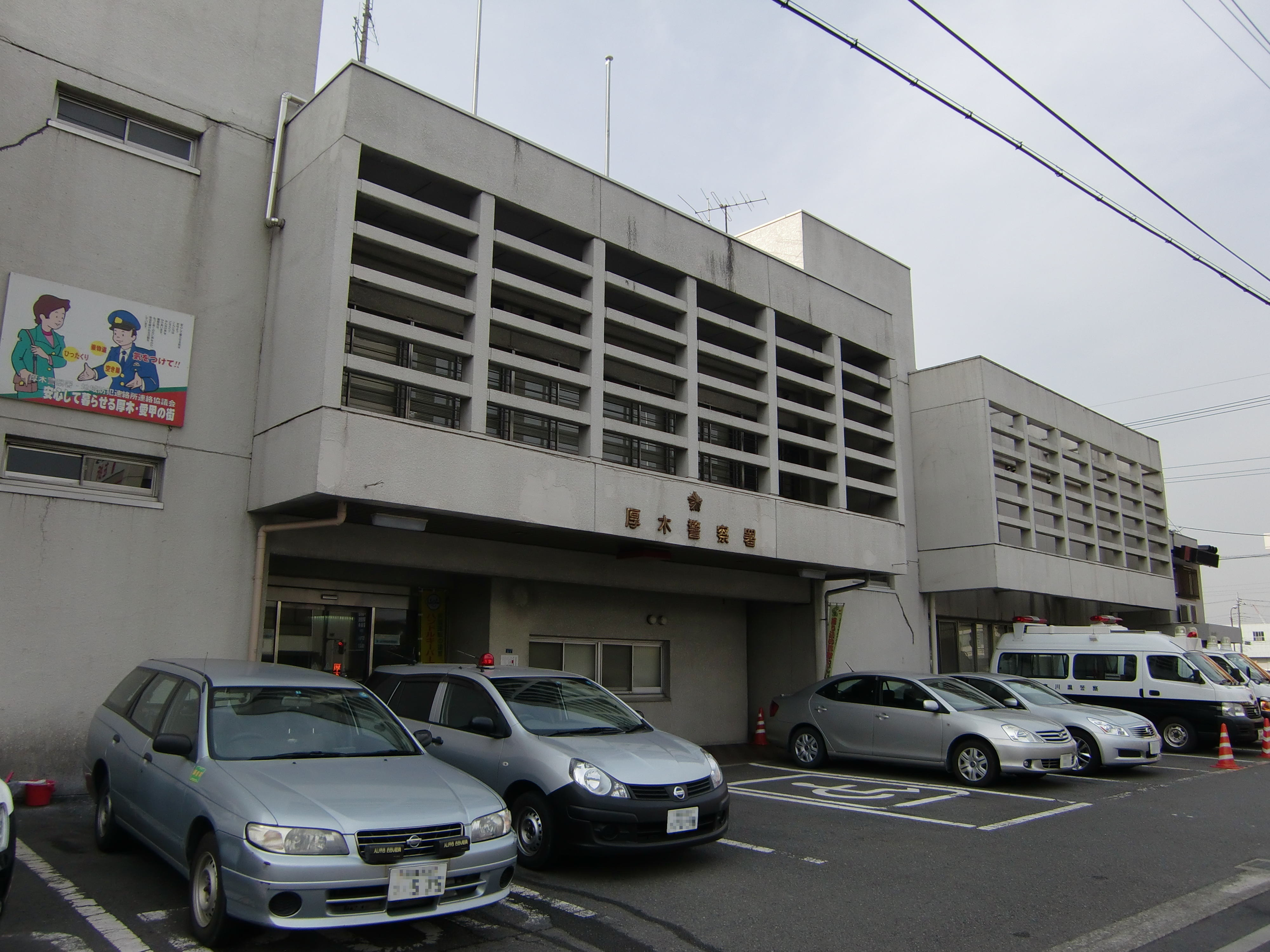 Atsugi Police Station